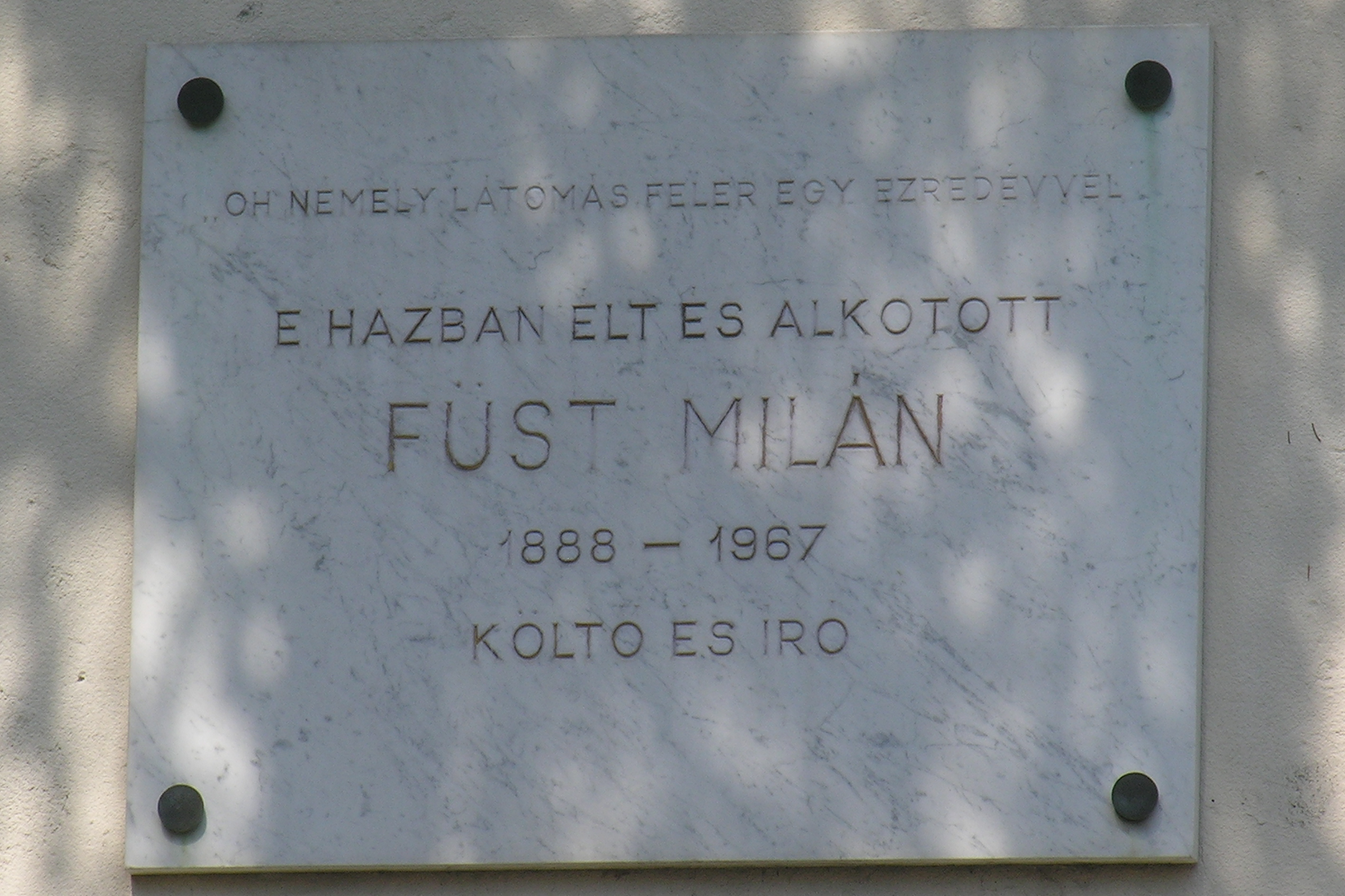 Commemorative plaque of Milán Füst, Budapest District II, Hankóczy Jenő Street No 17